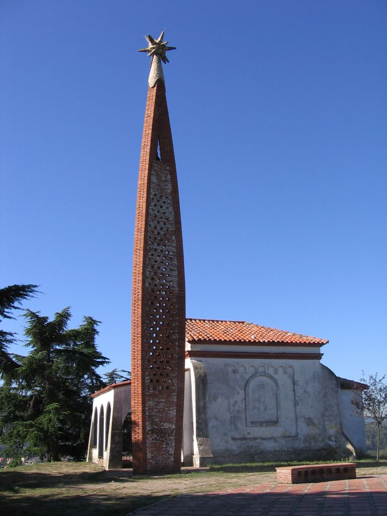 Ermita Mare de Déu del Puig